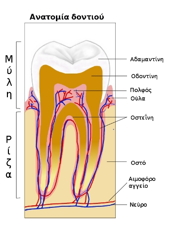 Teeth anatomy